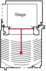 Diagram of a theater plan, showing how the "Oeil du Prince" point is calculated, according to Nicola Sabbatini. The vertical stem of the "T" is equal to the width of the stage. Drawn by Renato M.E. Sabbatini, PhD. December 2005.